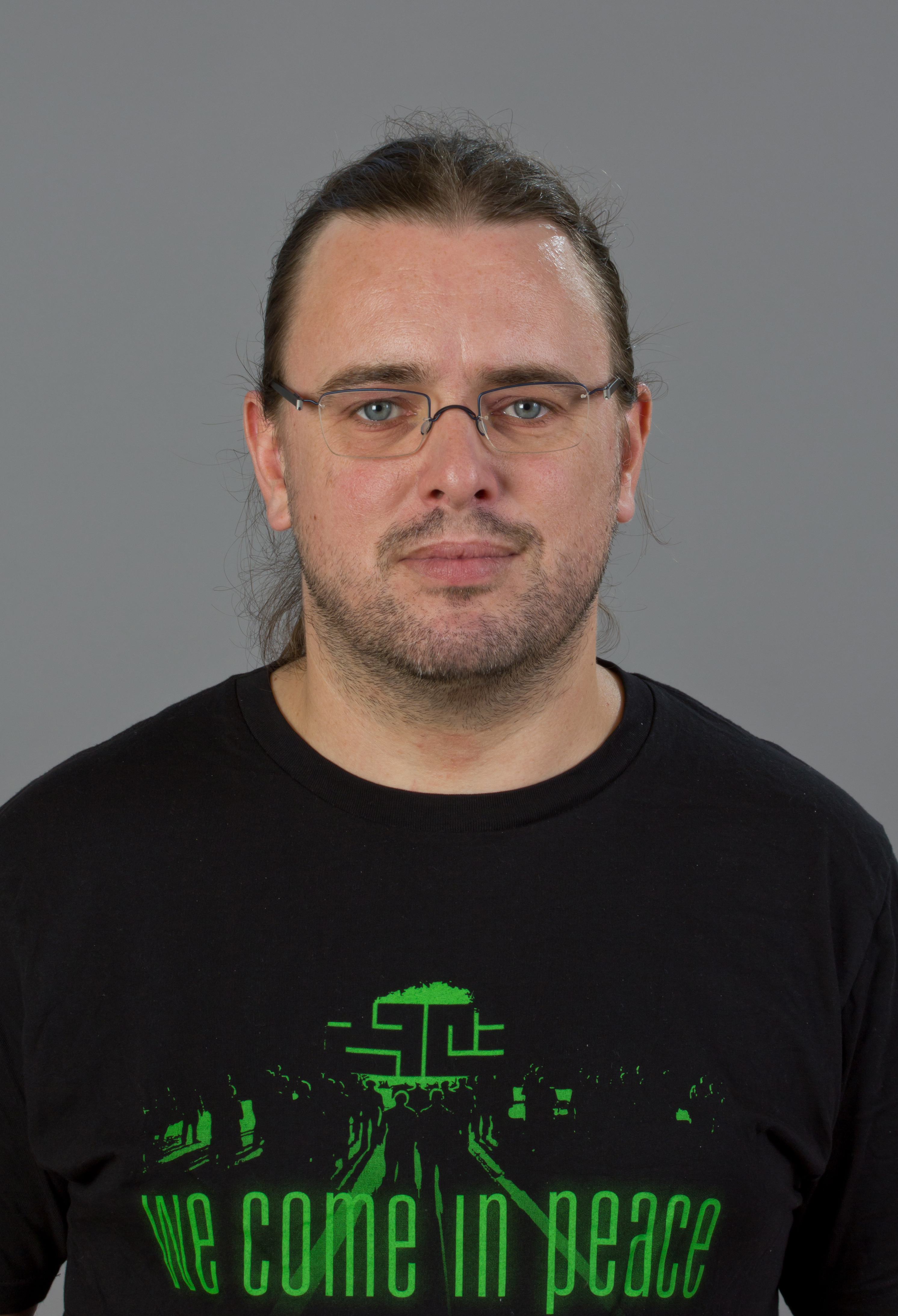 Alexander Morlang, politician from Germany, member of Abgeordnetenhaus of Berlin (as of 2013)